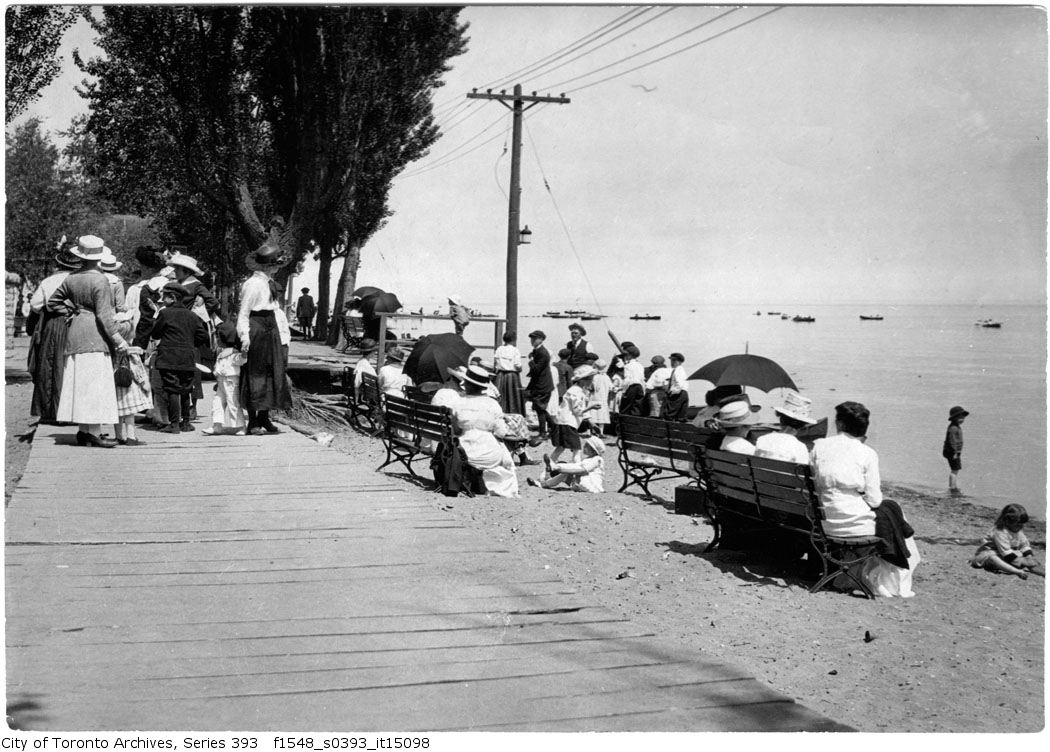 Kew Beach from sidewalk Photographer: John Boyd June 18, 1918 City of Toronto Archives This image is available from the City of Toronto Archives, listed under the archival citation Series 393, Item 15098. This tag does not indicate the copyright status of the attached work. A normal copyright tag is still required. See Commons:Licensing for more information.